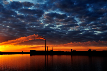 Zhezkazgan CHP station